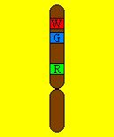 An illustration of chromosome with 3 locus demonstrating Genetic linkage.